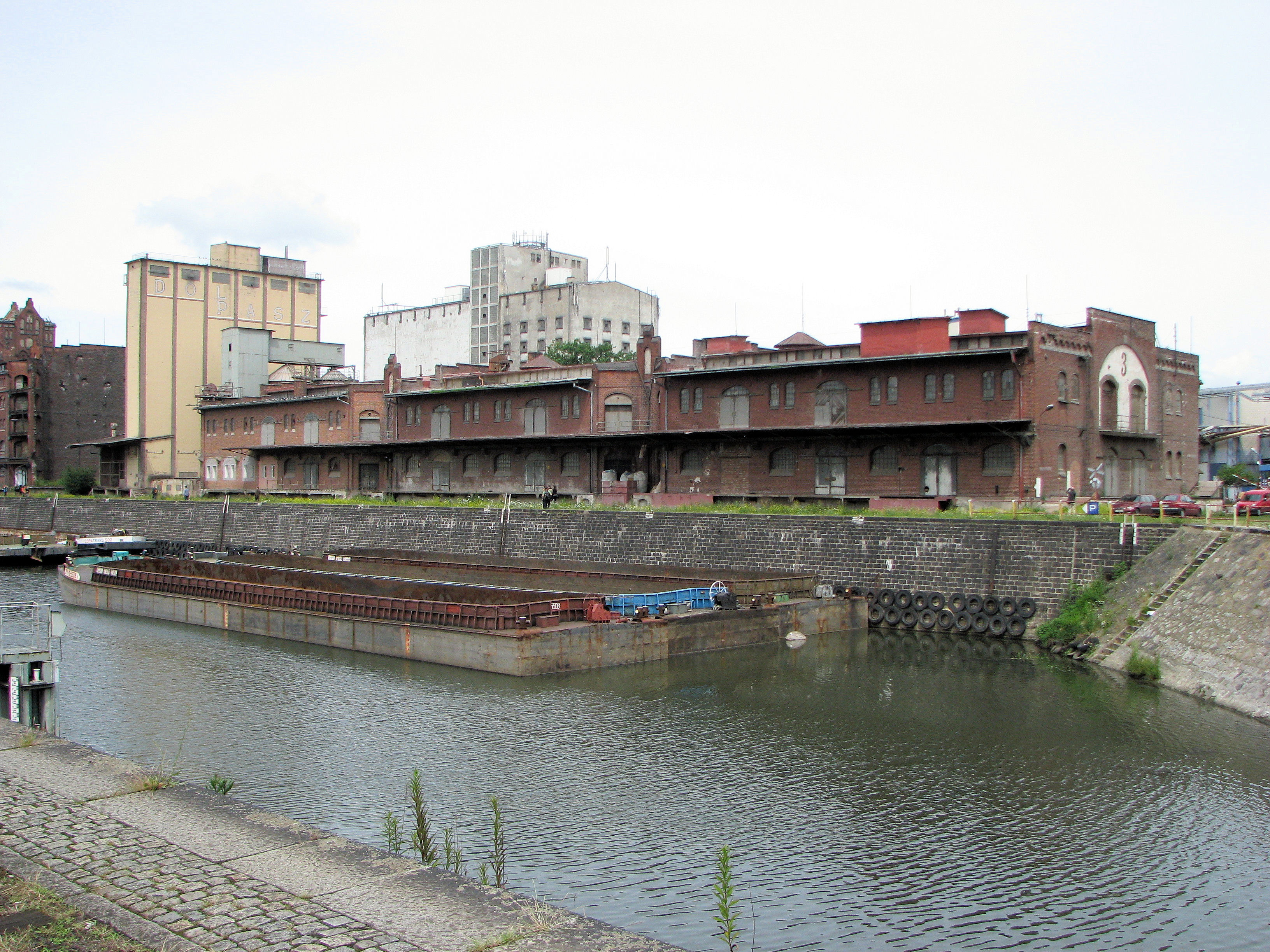 Photo made during the Photo Day 4.0 event in Wrocław